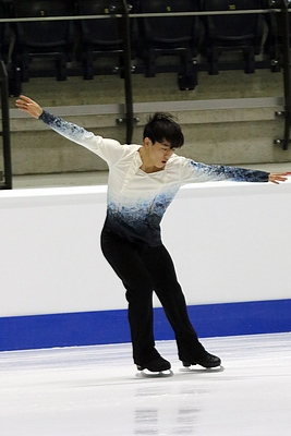 Jin Seo KIM KOR – 9th Place